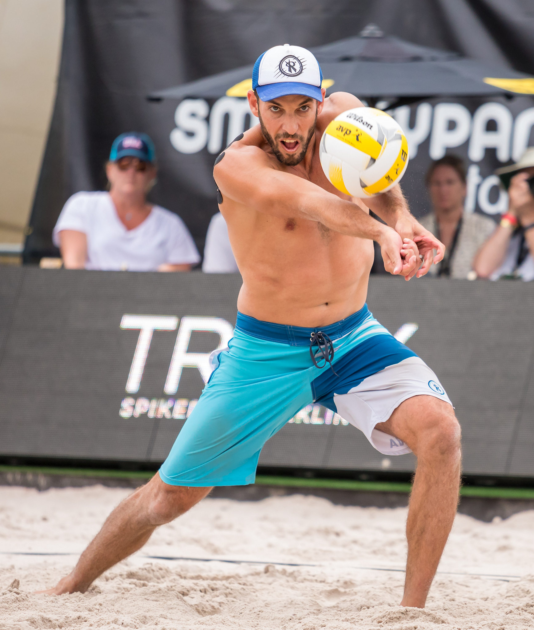 Nick Lucena at the AVP Austin Open professional beach volleyball tournament in Austin, Texas on May 21, 2017.